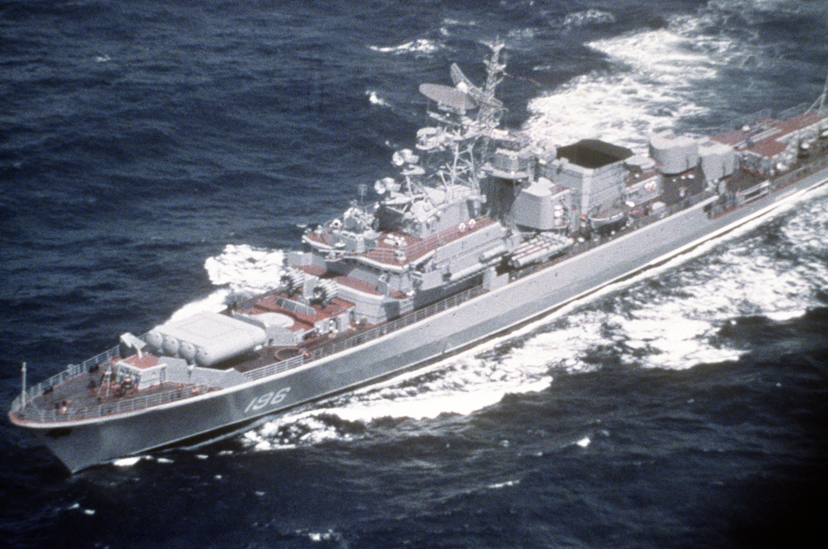 A port bow view of a Soviet Krivak class guided missile frigate underway.